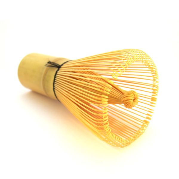 Matcha Whisk, known as “Chasen,” used in the Japanese tea ceremony is hand crafted from white bamboo to make a traditional style Matcha. Credit when using this picture.